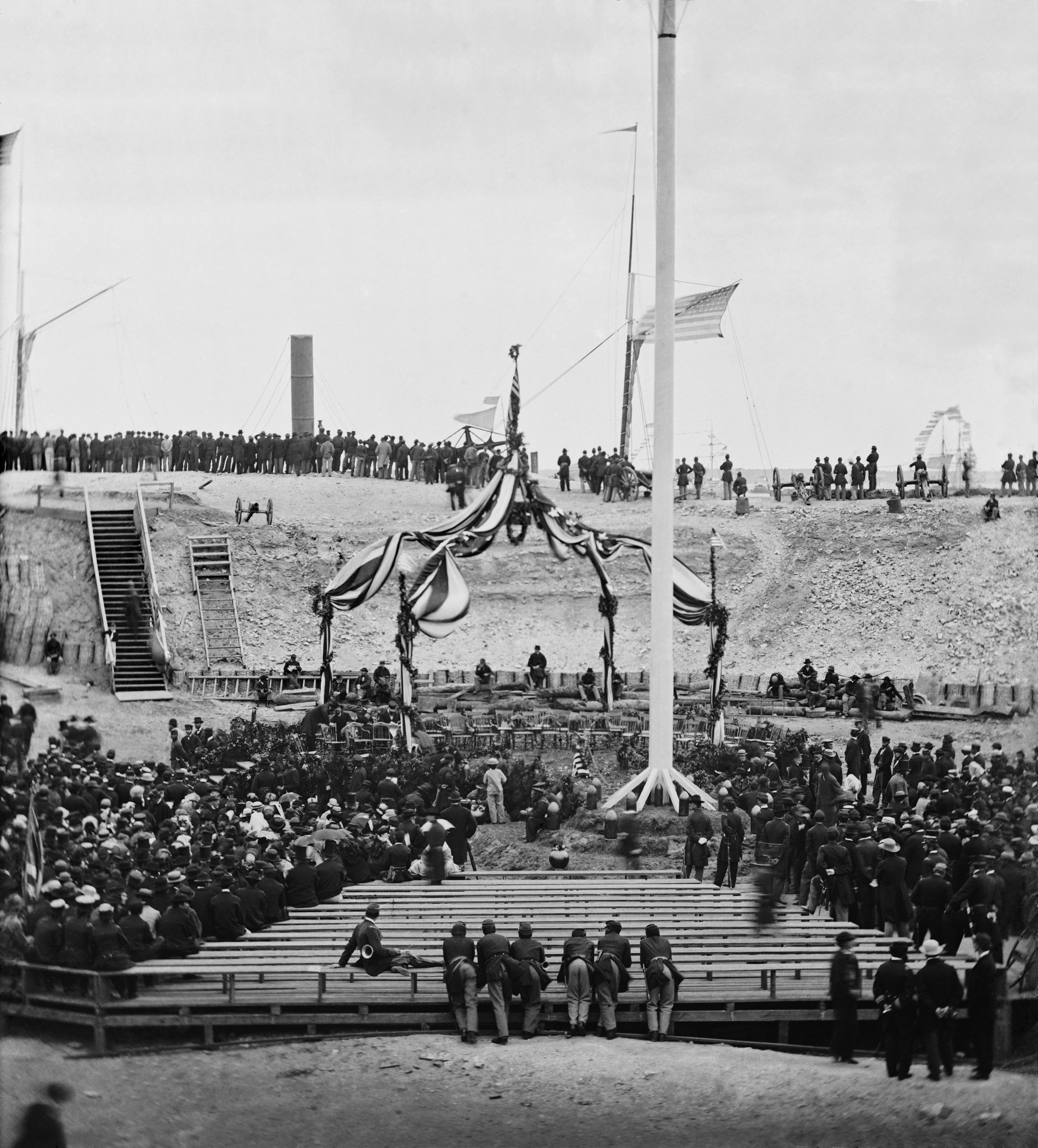 View of the flag-raising over Fort Sumter, Charleston Harbor, Charleston, South Carolina, April 14, 1865, with the arrival of Major General Robert Anderson and guests. Stereograph wet collodion negative. Library of Congress, Washington, D.C.